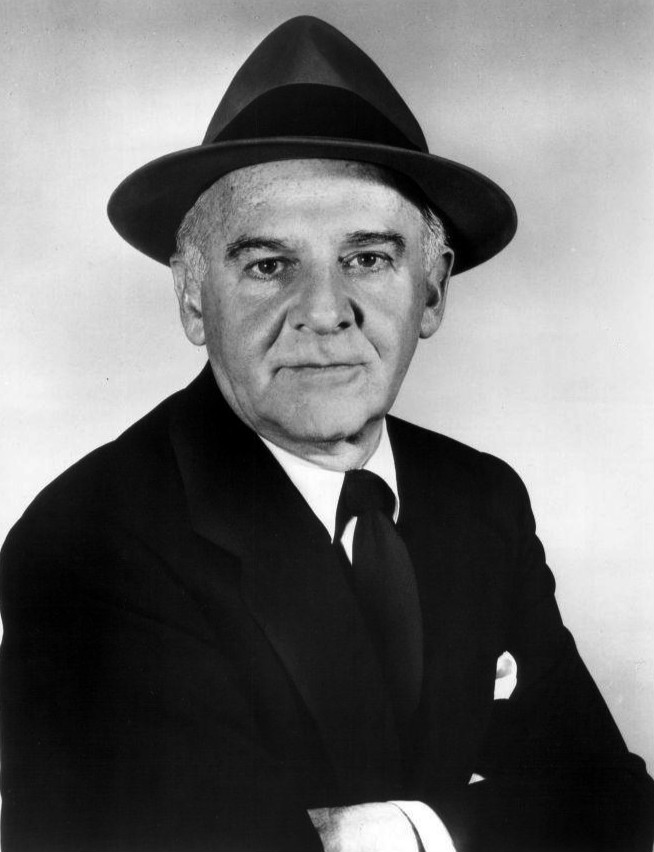 Publicity photo of Walter Winchell from his short-lived ABC Television variety program.